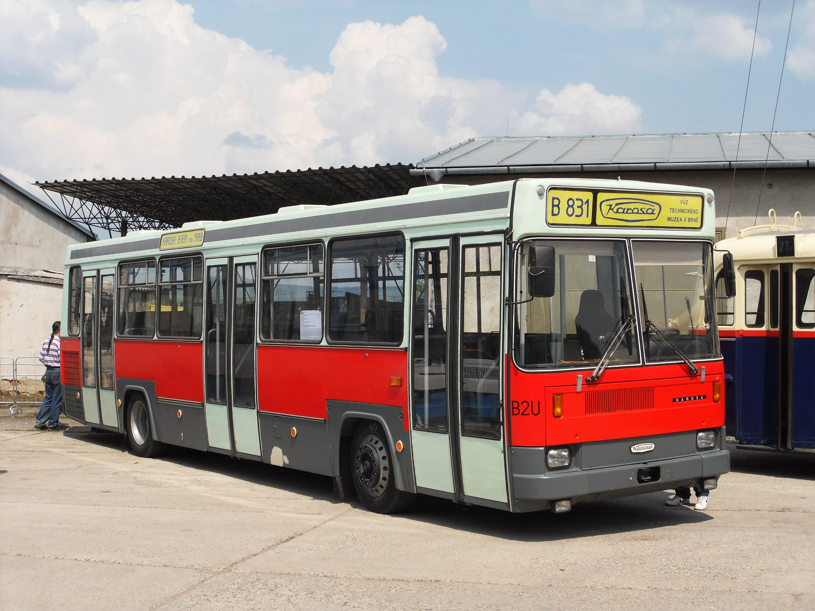 Historical bus Karosa B 831 (ex Karosa), depository of Technical Museum in Brno, Czech Republic